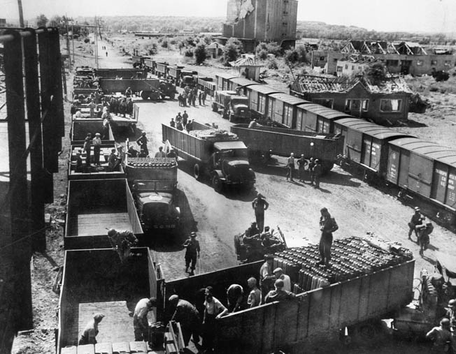 Unloading packaged POL